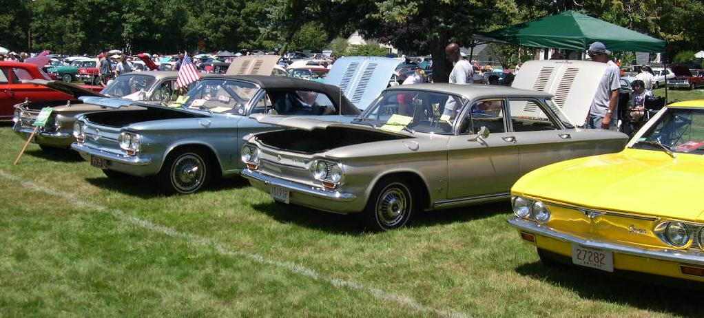 Chevrolet Corvairs Source: Photographed at the Bay State Antique Automobile Club's July 10, 2005 show at the Endicott Estate in Dedham, MA by User:Sfoskett Blue car is a 1964, tan is a 1963, yellow is 1965+